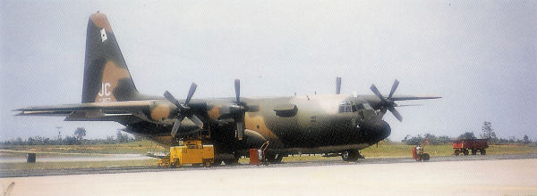 Lockheed C/EC-130E-LM Hercules Serial 62-1857 of the 7th ACCS at Korat Royal Thai Air Force Base, 10 May 1974. This aircraft survived the Vietnam War and was converted to C-130E-II, later to be redesignated EC-130E in 1976. Later, this aircraft served as an EC-130E ABCCC aircraft at Davis-Monthan AFB, Arizona (1999)